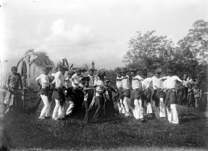 Seudati dance performing at Samalanga, Bireun, Aceh